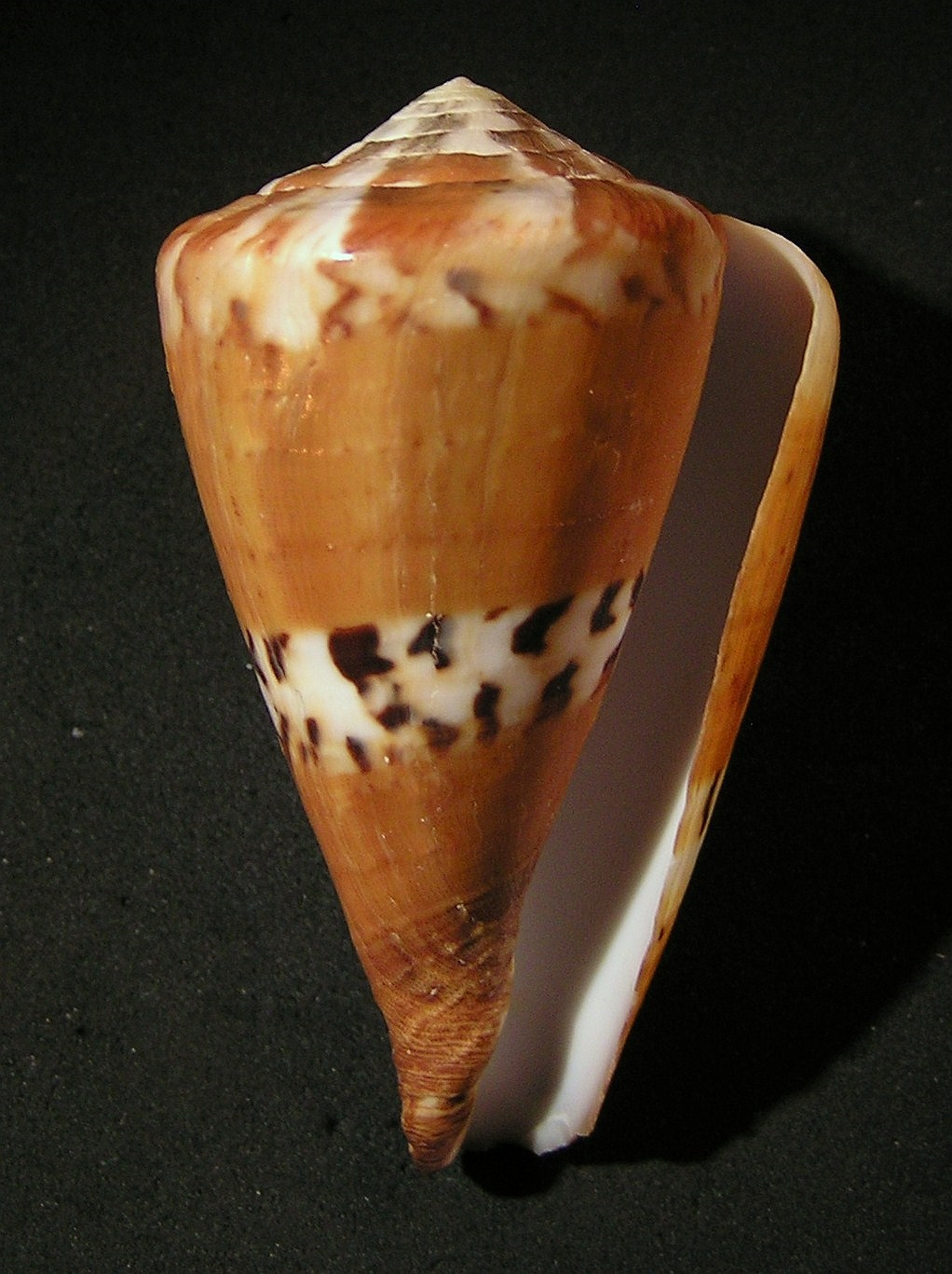 Conus capitaneus Linnaeus, 1758 ; the Philippines